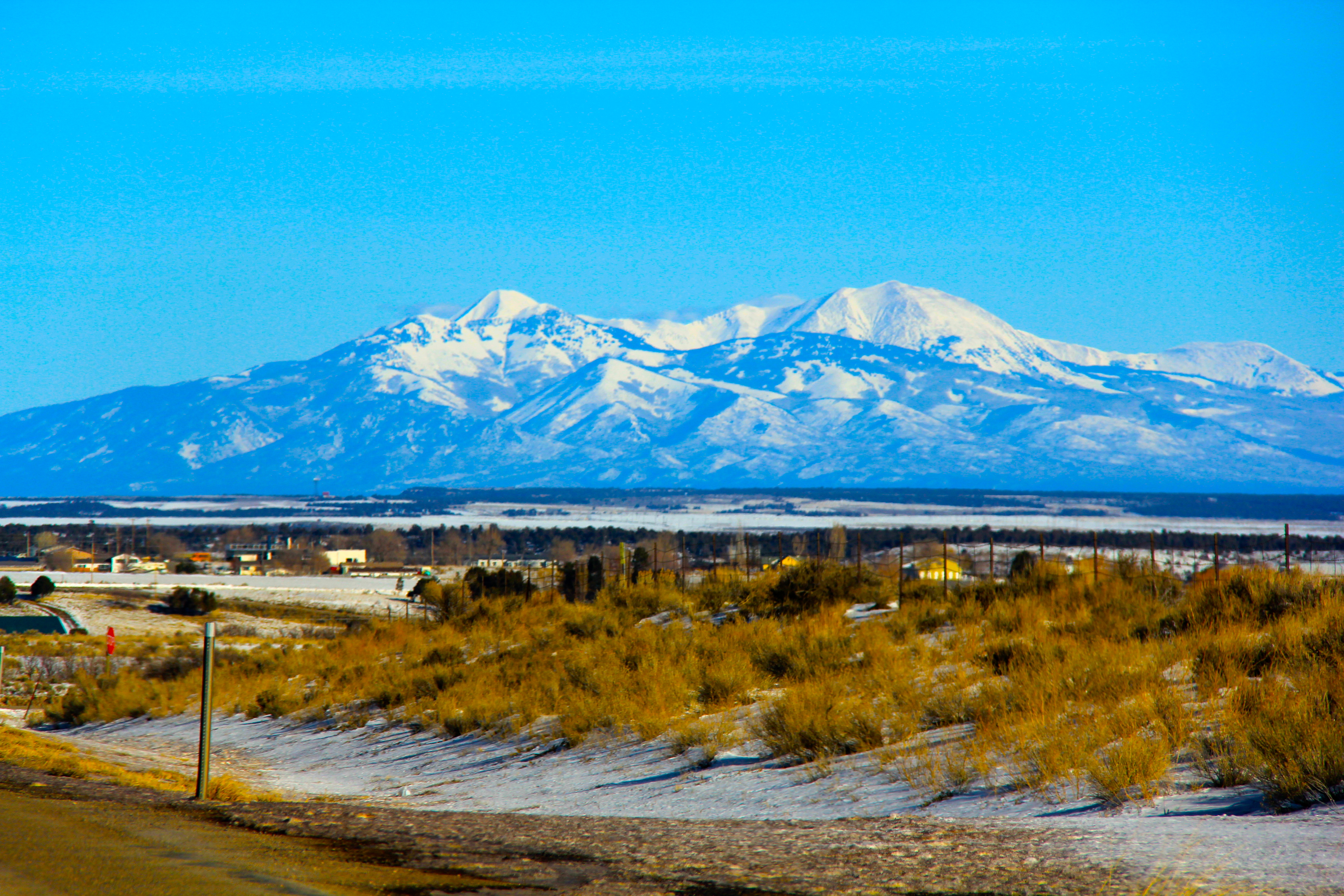 Abajo Peak in the background from Utah State HWY 191